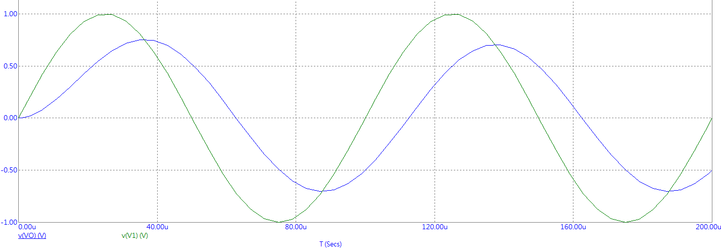 N/A